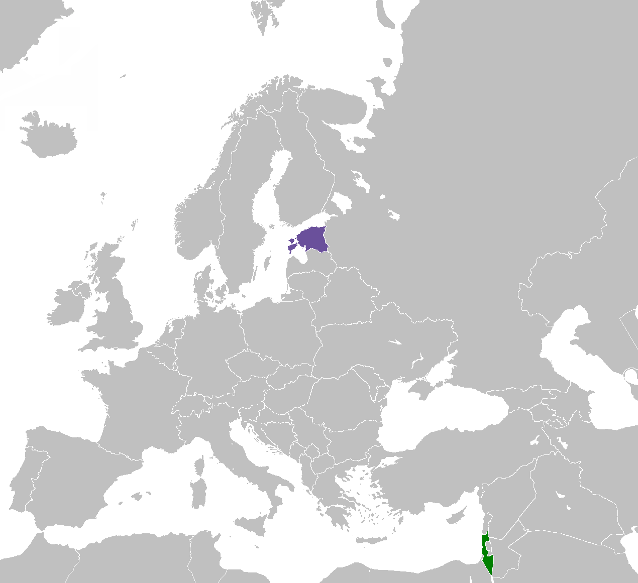 Israel Estonia locator